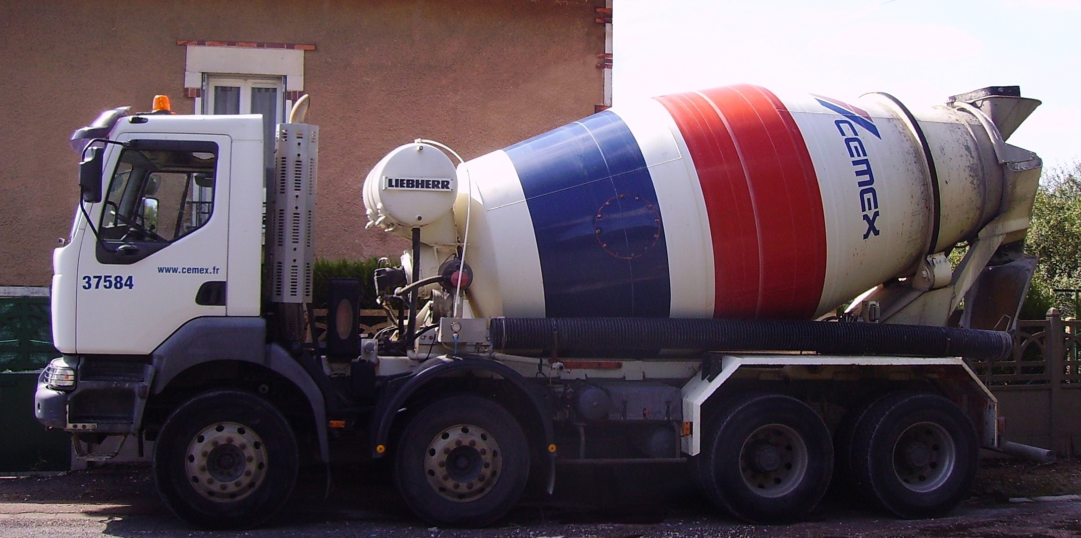 Cement mixer Renault Kerax - Liebherr. Cemex society.